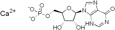 Chemical structure of calcium inosinate, E633